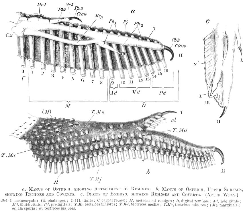 Wing of Ostrich